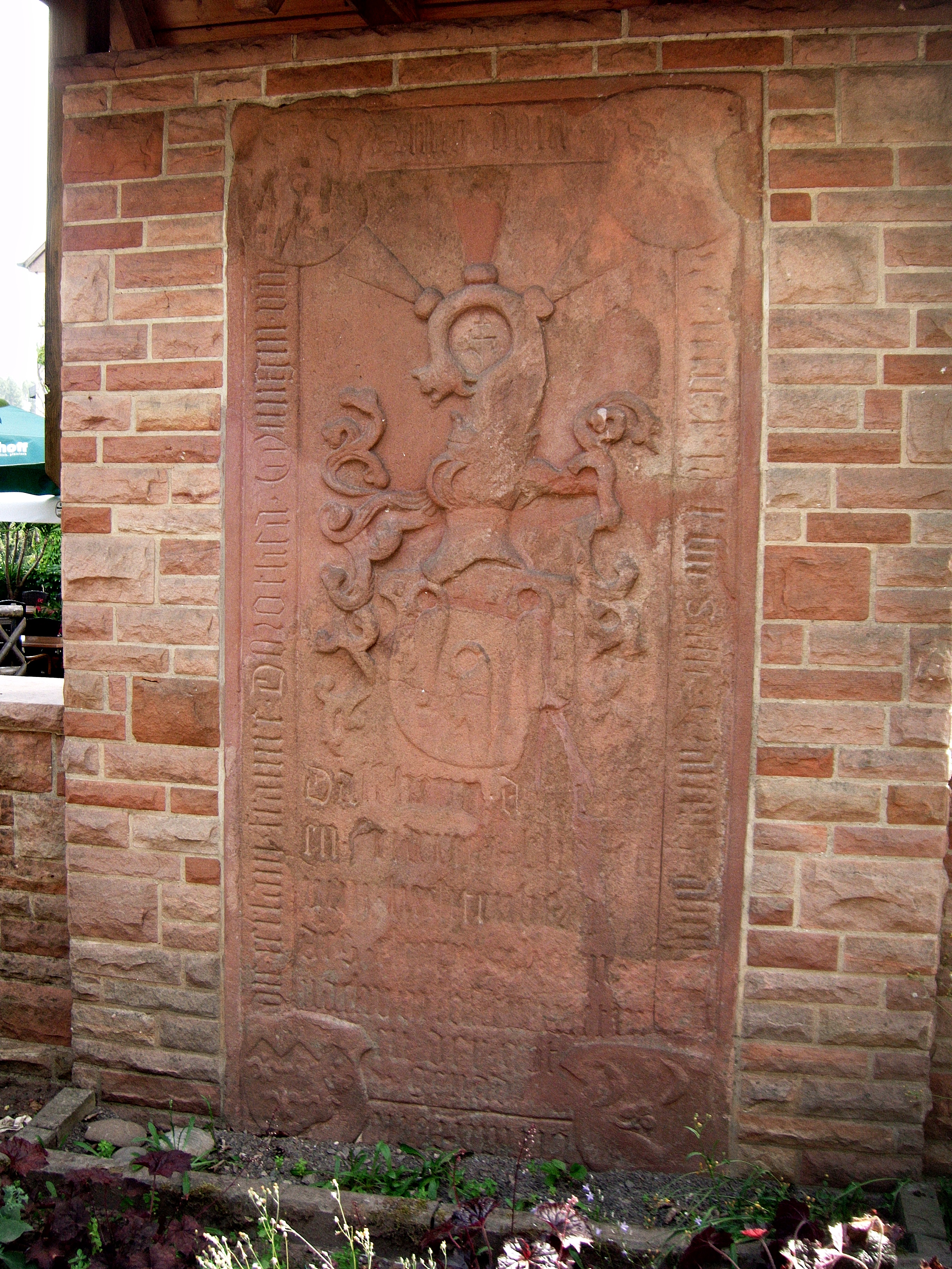 Fischbach Grabstein aus der Klosterkirche